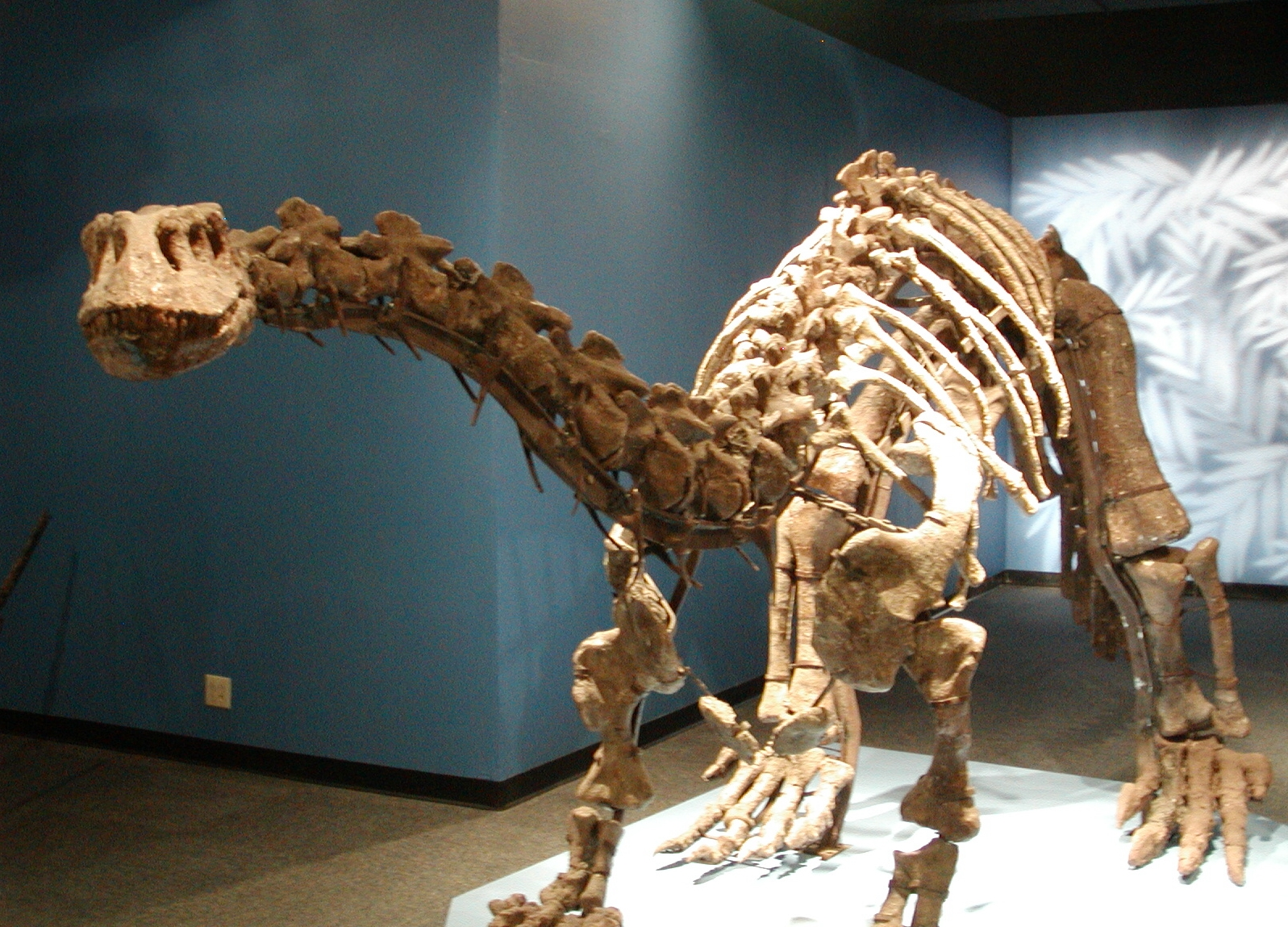 Photo of a skeleton of Lufengosaurus magnus from the Beijing Museum of Natural History on view at the Miami Museum of Science.